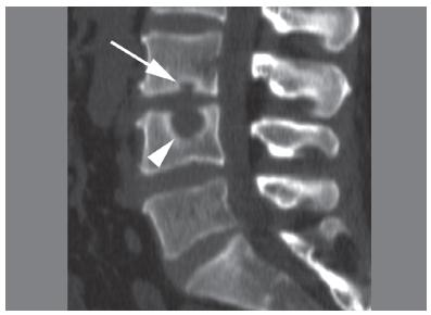 56-year-old woman with low back pain. Sagittal CT reformat showed typical SN features, as observed for the small SN at the inferior endplate of the L3 vertebral body (arrow): the vertebral nodule was broad-based at the endplate, with well-defined contours and thin marginal sclerosis. A large and less typical SN (arrowhead) is observed at the superior endplate of L4.